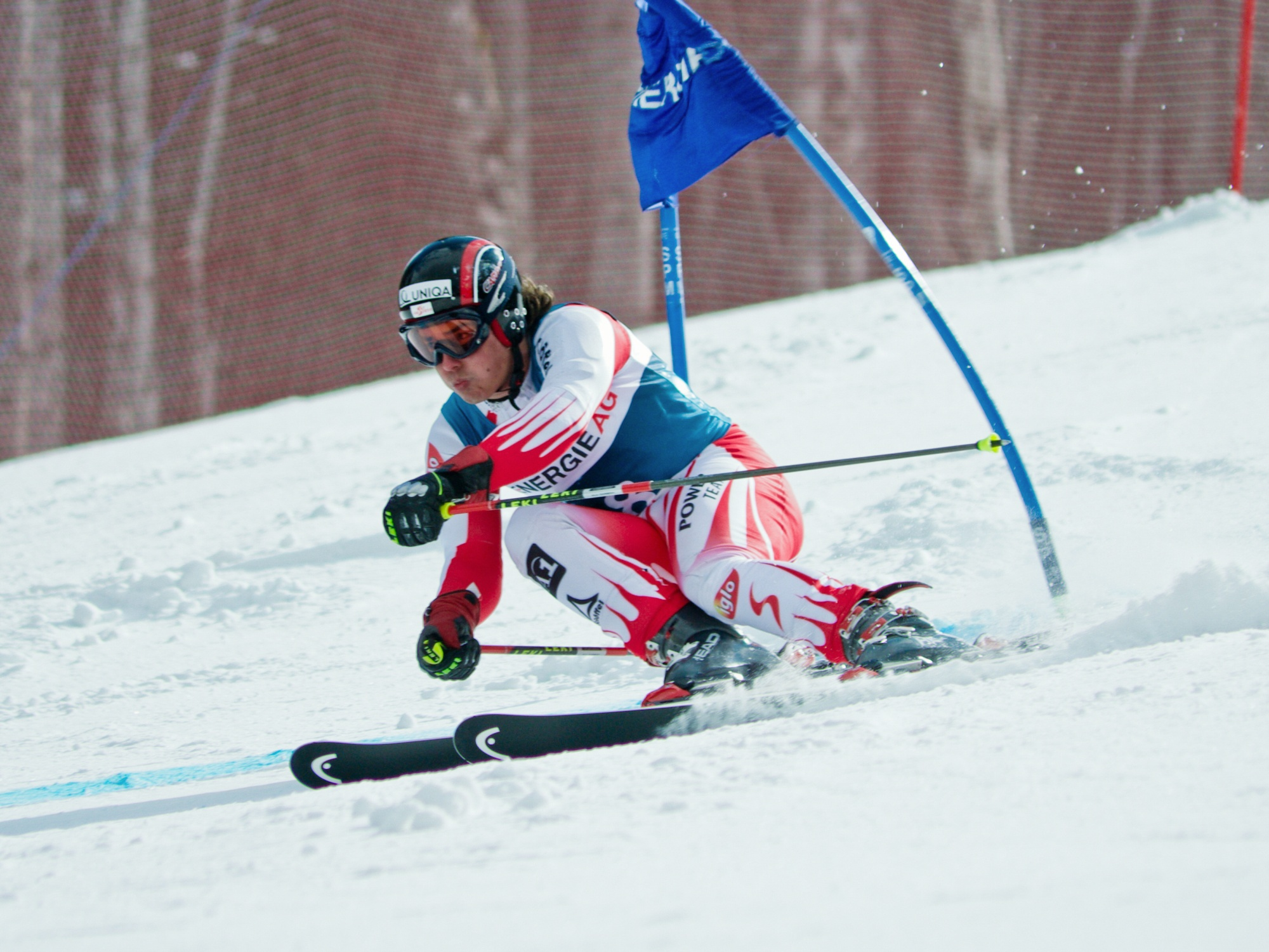 Austrian alpine skier Marcel Mathis in the first run of the FIS Giant Slalom in Hinterstoder, Austria, on 8 March 2010.